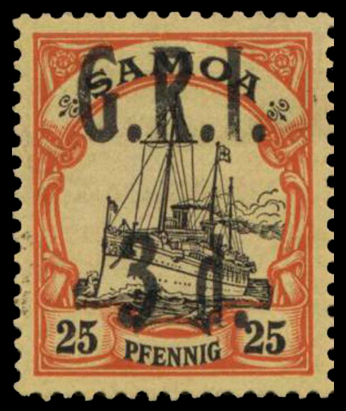 Postage stamp of German Samoa overprinted by British occupation forces, SMY Hohenzollern, 3d on 25 pfennigs, 1914